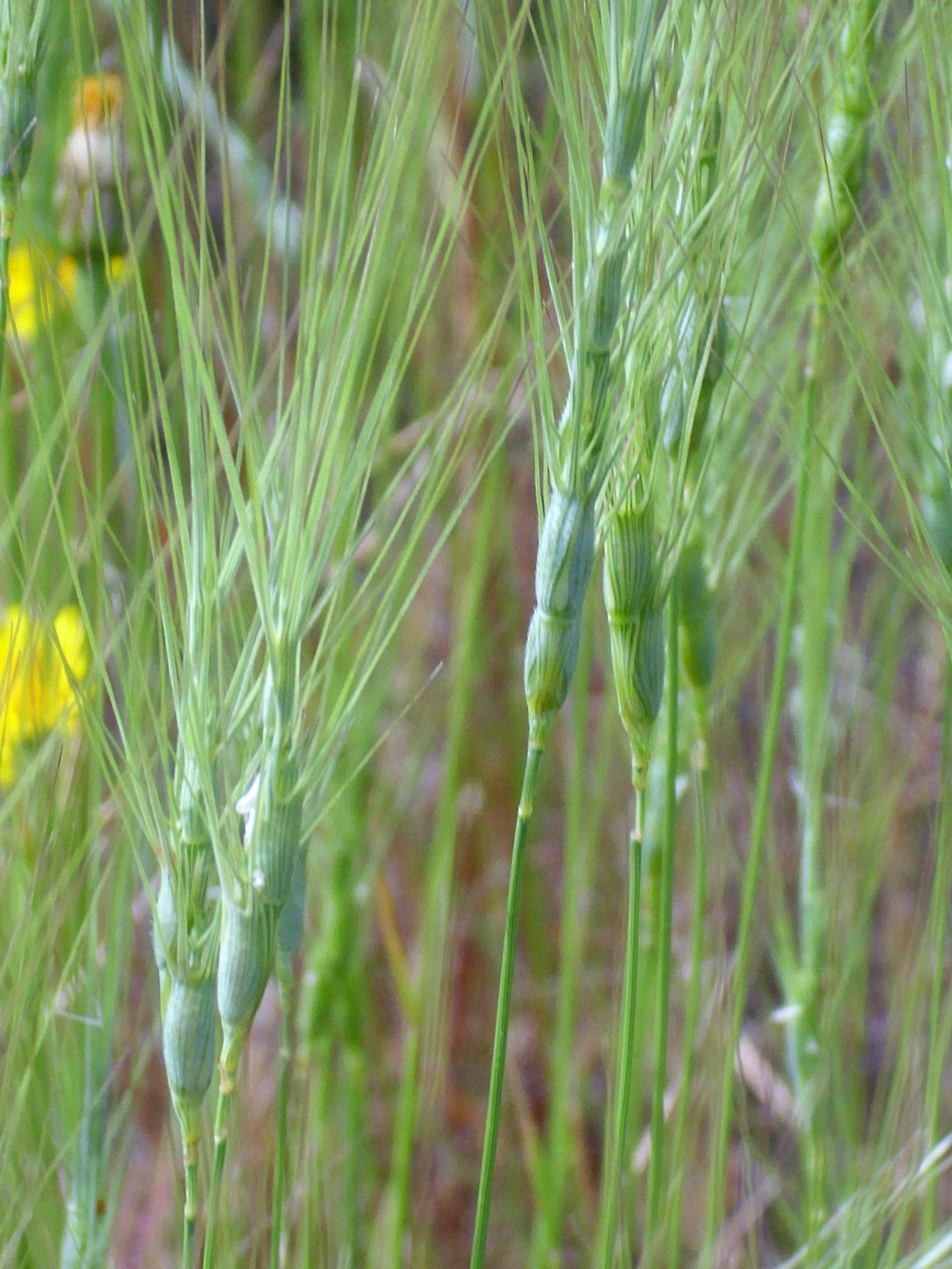 Aegilops triuncialis spikes close up, Dehesa Boyal de Puertollano, Spain